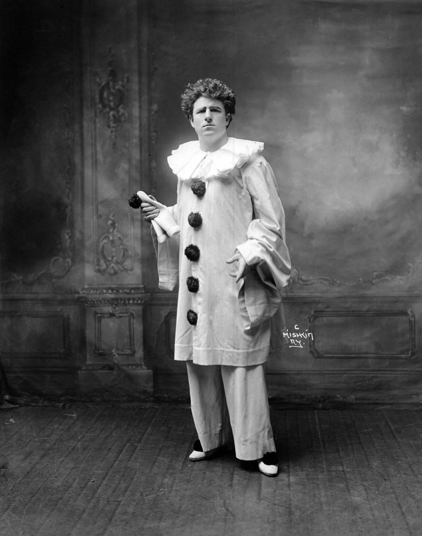 " Giovanni Martinelli as Canio in Leoncavallo's Pagliacci "